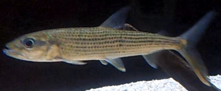 I recognize that this isn't the best quality image, but unfortunately my photography skills and my involvement in the aquarium community didn't develop at the same time. In spite of the quality of the image that I've had to use here, I feel that this image is unique and could potentially contribute to the site. Hydrocynus forskahlii. Fish pictured here were between five and six inches (13-15 cm) in length.